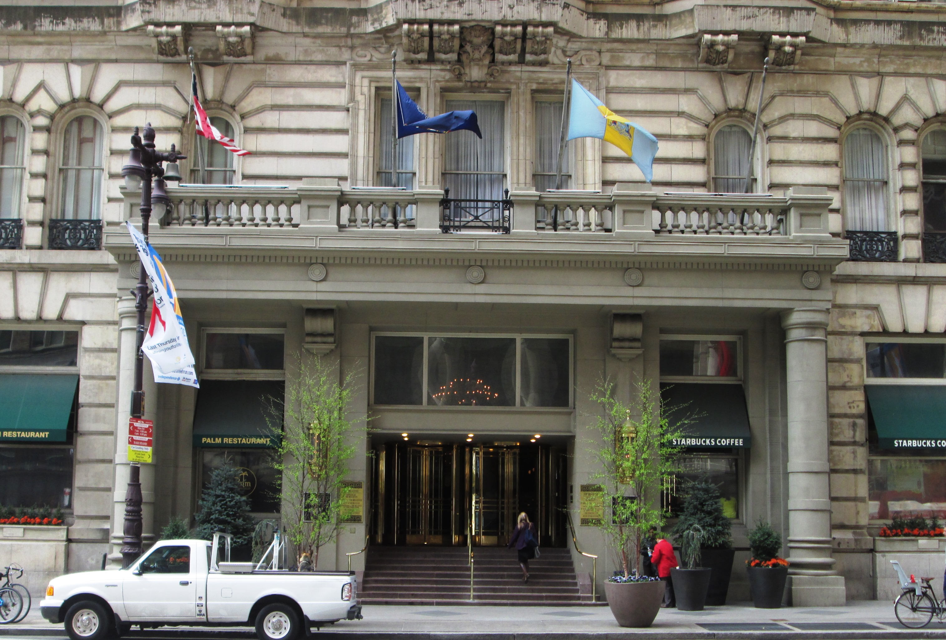 The Bellevue-Stratford Hotel, located at 200 S. Broad Street at the corner of Walnut Street in the Avenue of the Arts district of Philadelphia, was built in 1902-04 and was designed by G. W. & D. W. Hewitt in the French Renaissance Revival style. The Bellevue Stratford was one of the leading hotels in the world, and featured a library, Turkish and Swedish baths, in-house orchestras, a rose garden and three ballrooms. Alterations to the building took place in 1909 and 1913, the latter designed by Hewitt & Paist. An outbreak of Legionaires Disease closed the hotel in 1977, and in 1980 and 1989 it was renovated, each time reducing the number of rooms, with the remainder of the building converted to offices or retail stores. It is now part of the Hyatt Hotel chain, and branded as the "Hyatt at The Bellevue". (Sources: Philadelphia Architecture: A Guide to the City (2nd ed.) and Architecture in Philadelphia: A Guide)